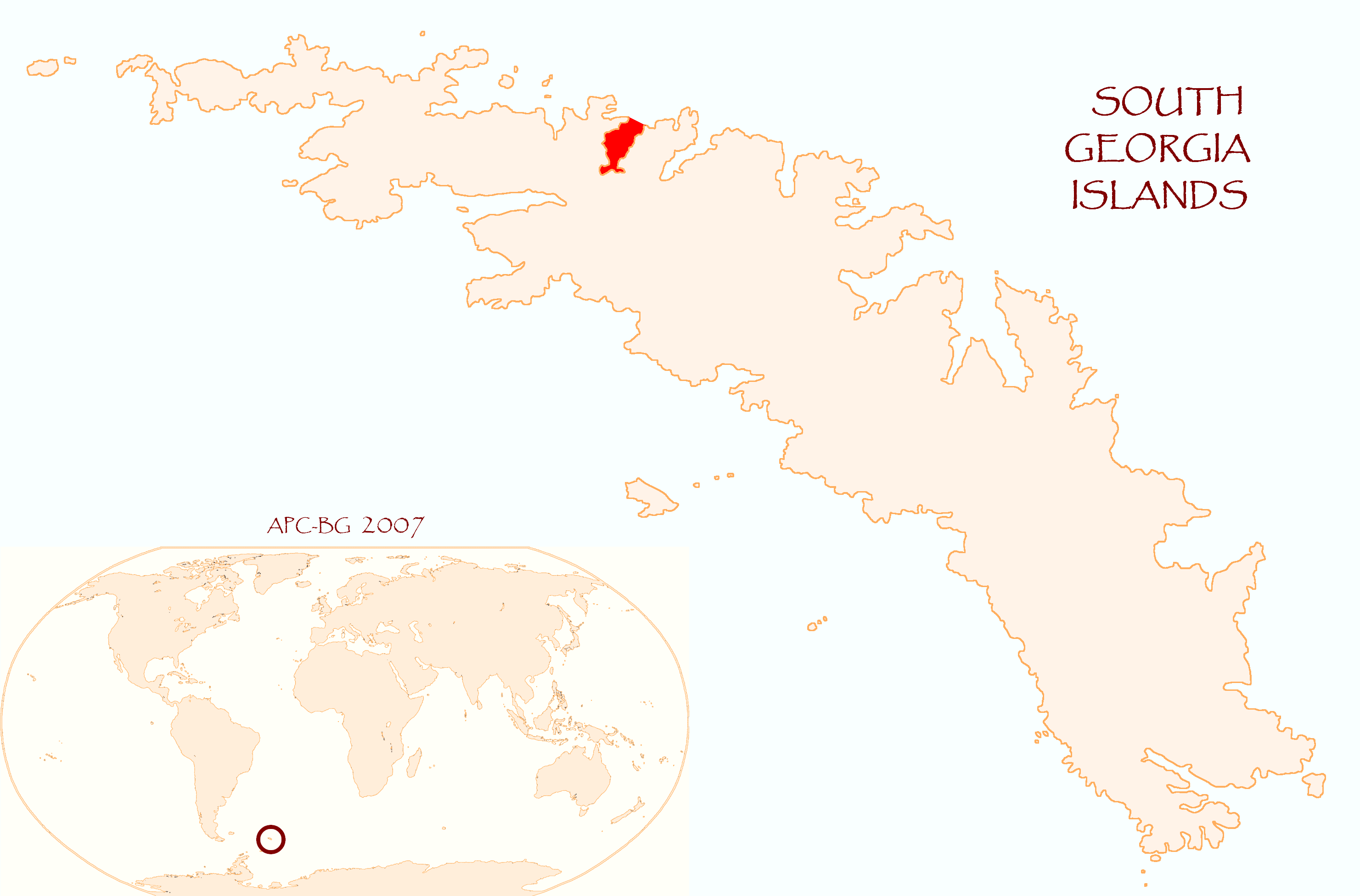 Location map for Possession Bay, South Georgia published by the author Apcbg.